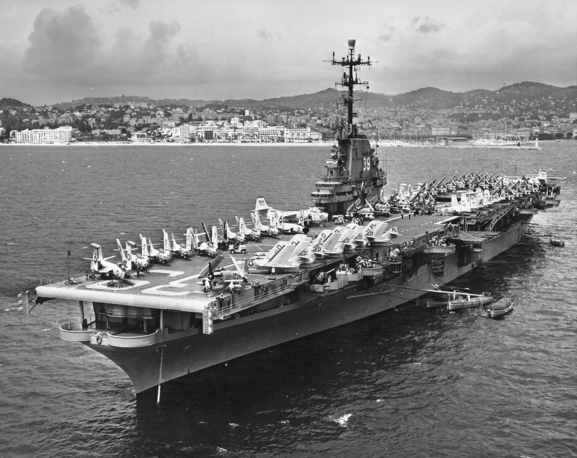 The U.S. Navy aircraft carrier USS Lake Champlain (CVA-39) at anchor off Cannes, France, on 19 June 1957, during her final deployment as an attack aircraft carrier. Lake Champlain, with assigned Air Task Group 182 (ATG-182), was deployed to the Mediterranean Sea from 21 January to 27 July 1957.